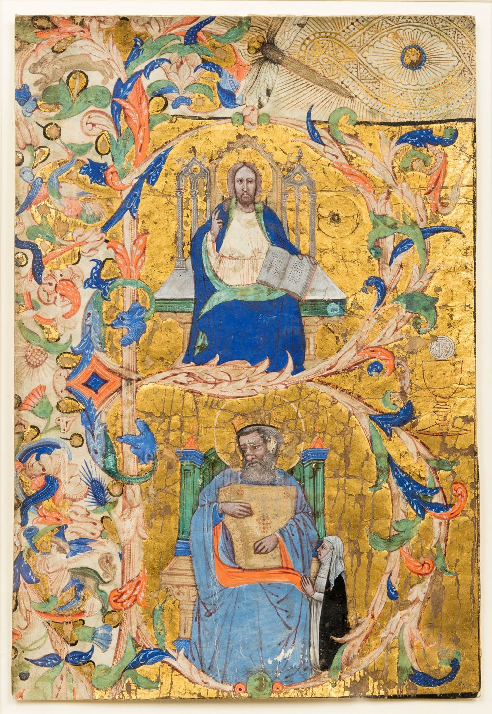 Ornamented miniature by Cristoforo Cortese depicting Jesus Christ enthroned and King David playing the psaltery from am antiphonal. Made circa 1401-1405.